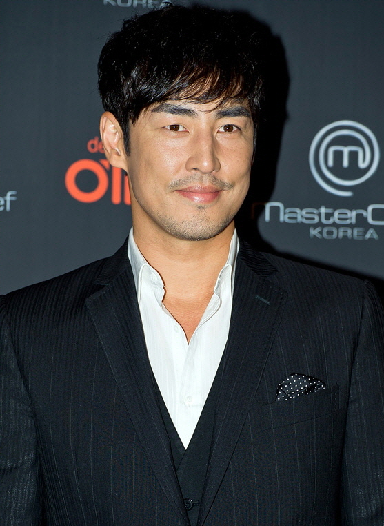 Kim Sung-soo in April 2012.